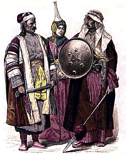 Man from Belka, Syria, Druze woman from Damascus, and Arab from Baghdad, late nineteenth century.